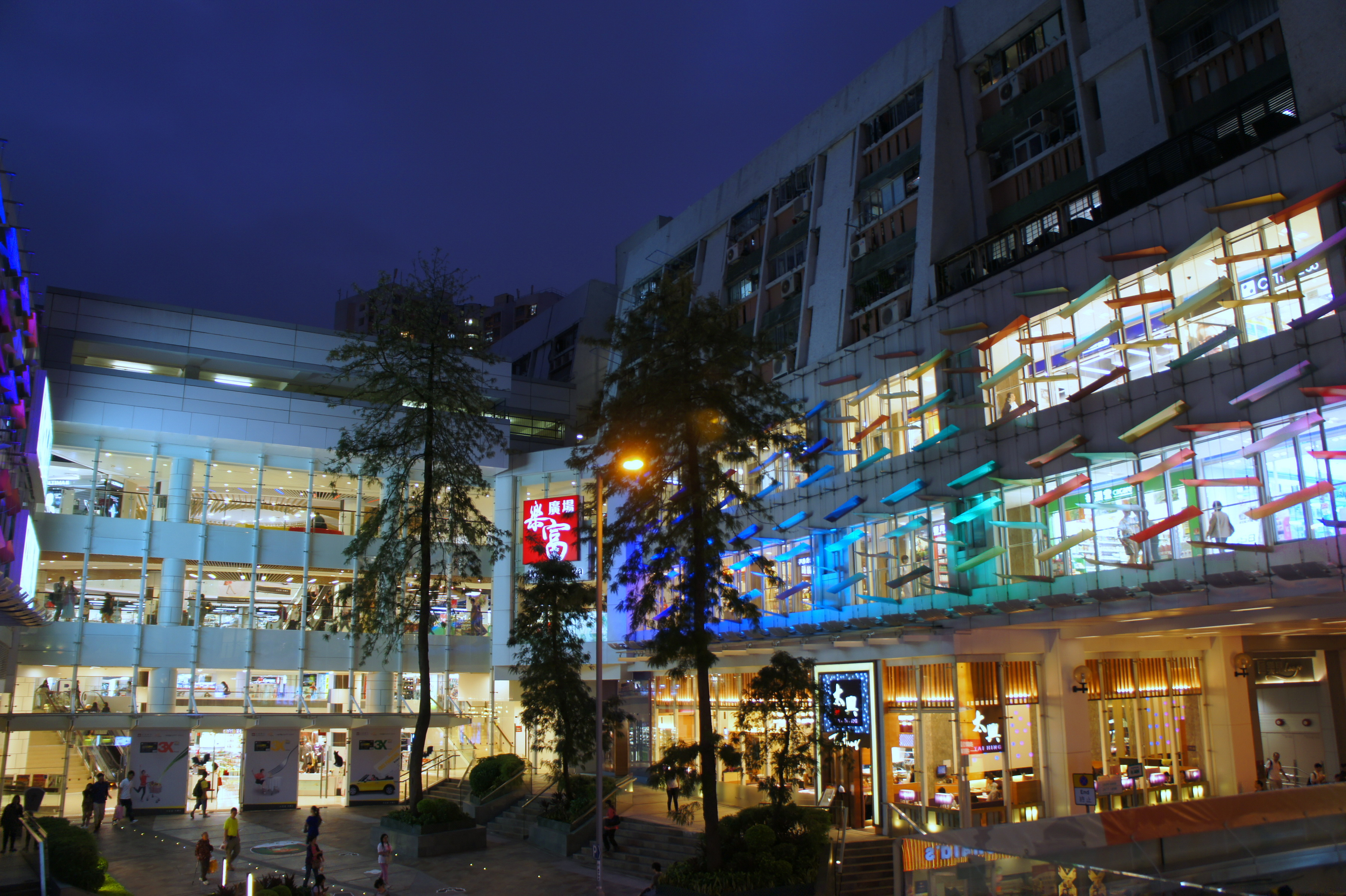 Lok Fu Plaza, Kowloon, Hong Kong.